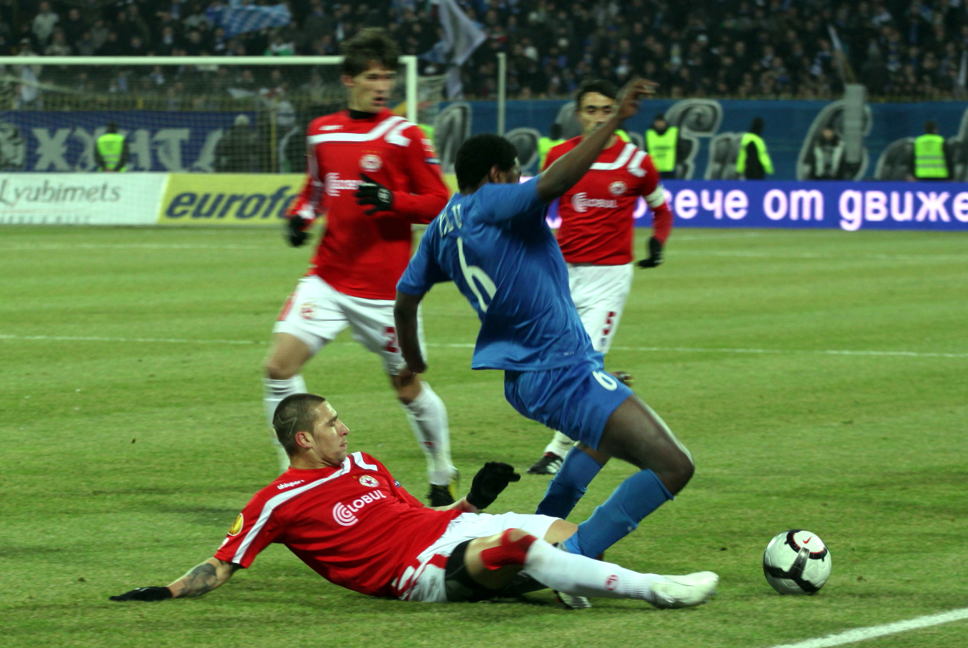 Moment of the match in bulgarian A PFGroup Levski-CSKA (1-3), 26-2-2011.